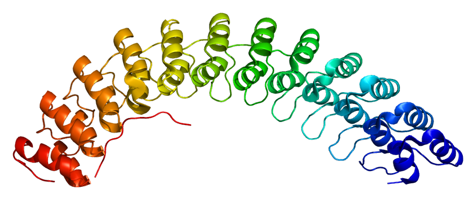 Structure of the ANK1 protein. Based on PyMOL rendering of PDB 1n11.